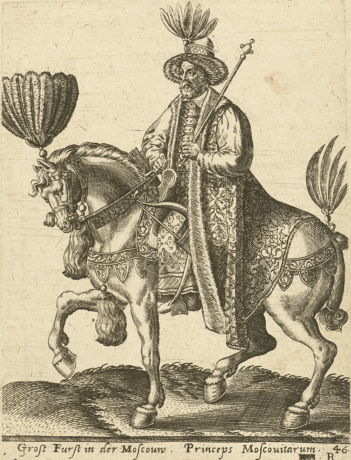 The Great Duke in Moscov